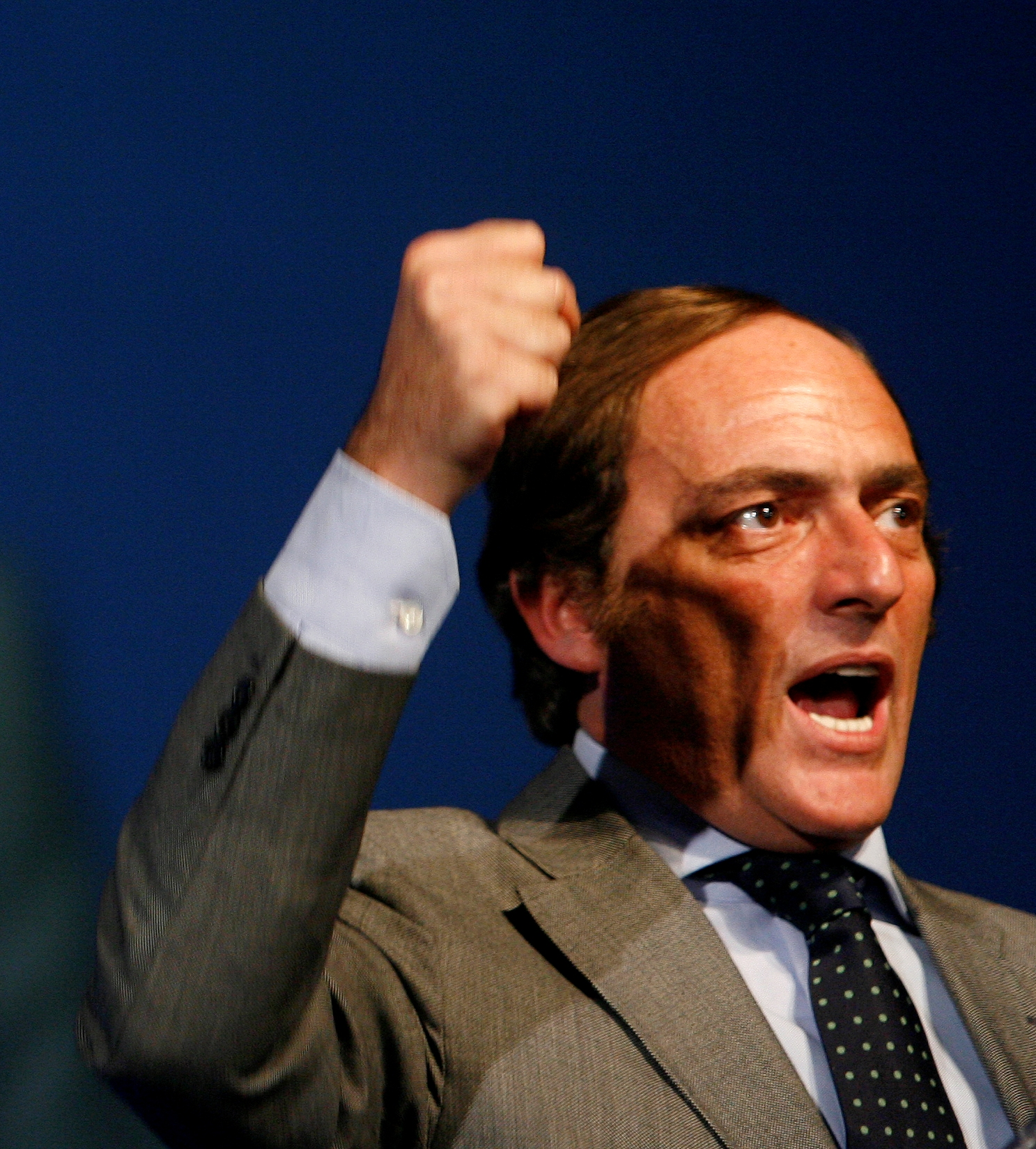 Paulo Portas in 23º Congress of CDS-PP.